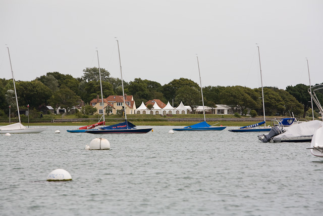 Furzefield, Bosham Hoe Seen from vicinity of main pontoon at West Itchenor. The white tent is temporary. (I'm not absolutely certain this house really is Furzefield)